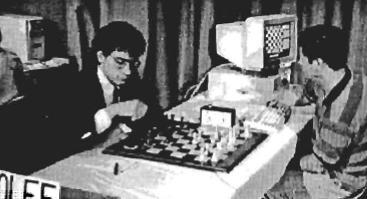 Harvard Cup 1992, Patrick Wolff and Don Dailey [6